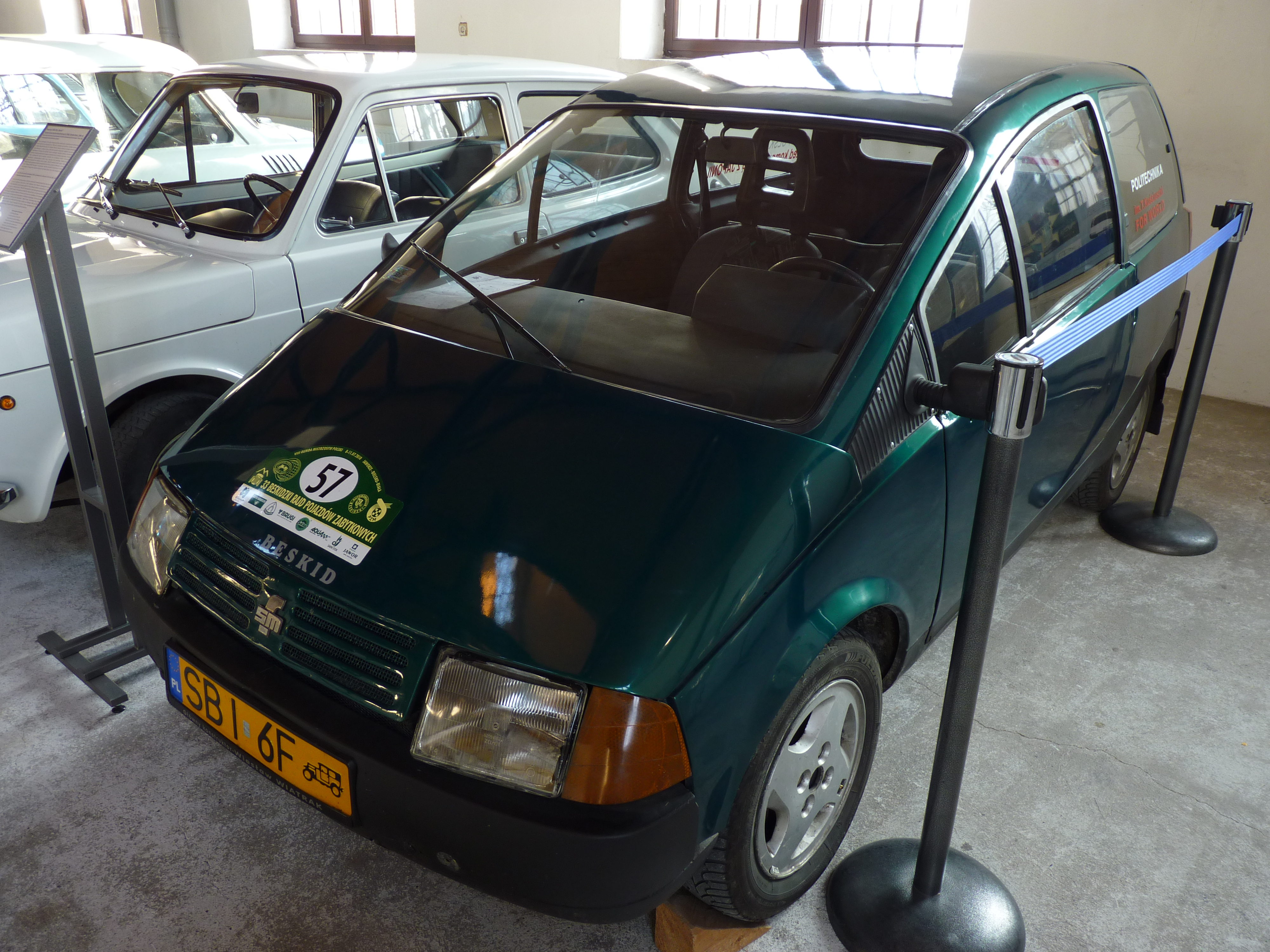 FSM Beskid 105 car at the Muzeum Inżynierii Miejskiej in Kraków, Poland.